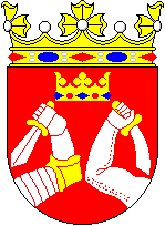 Coat of arms of historical province of Karelia in Finland